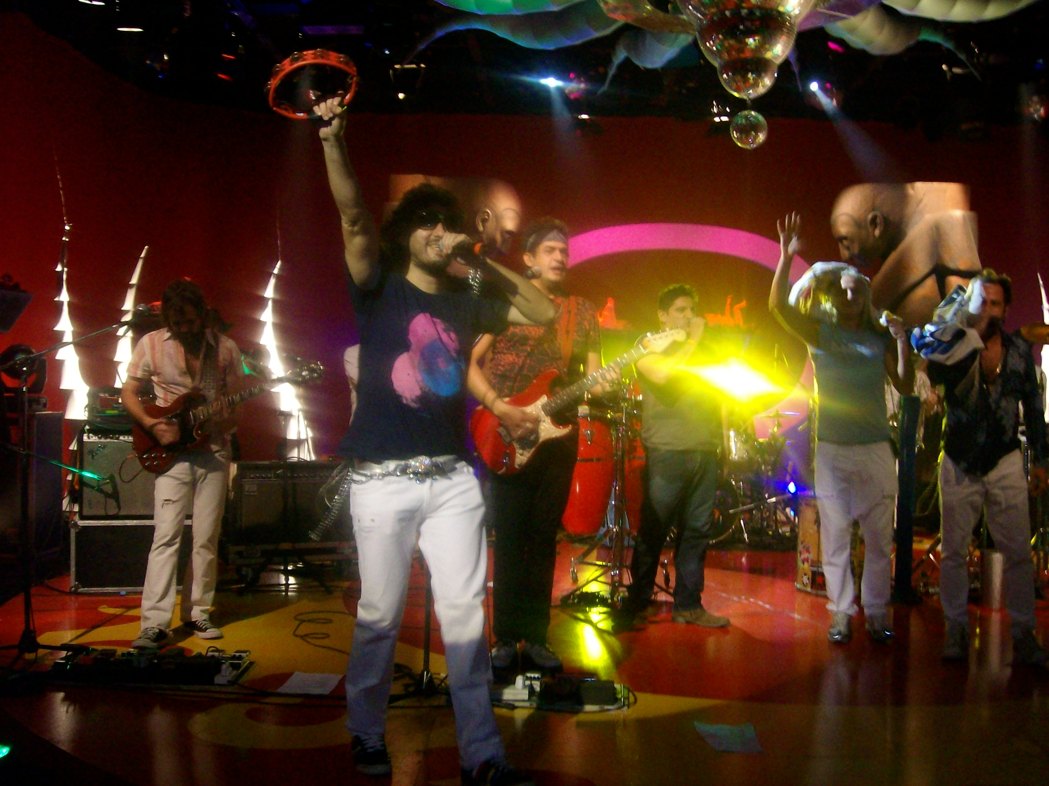 Diego Demarco,Gustavo Cucho Parisi, Gustavo Montecchia, Eduardo Tripodi, Gastón Bernardou and Martín Lorenzo in Estudio 69,a television show.